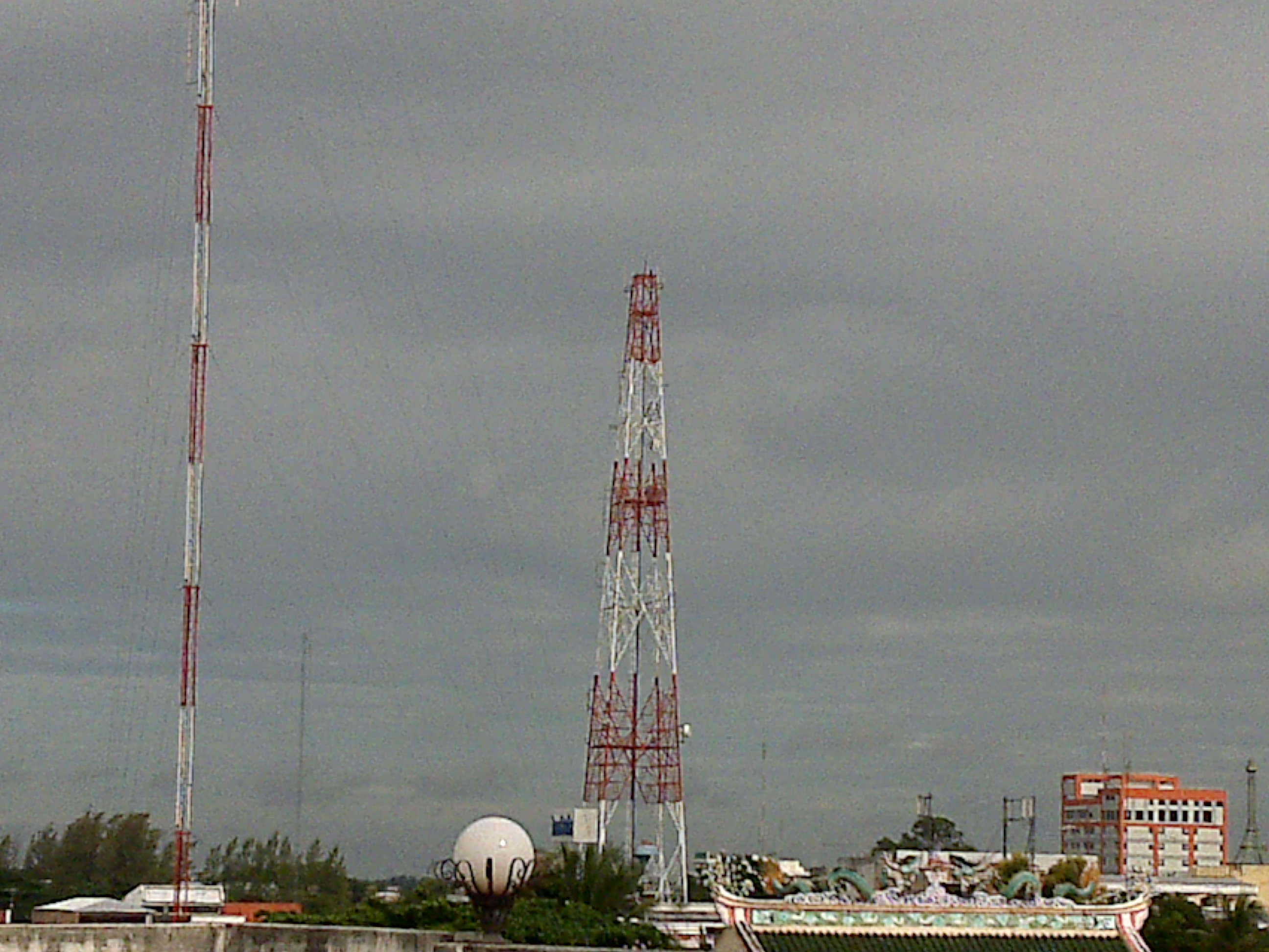 View of Buriram. (August 2011.)